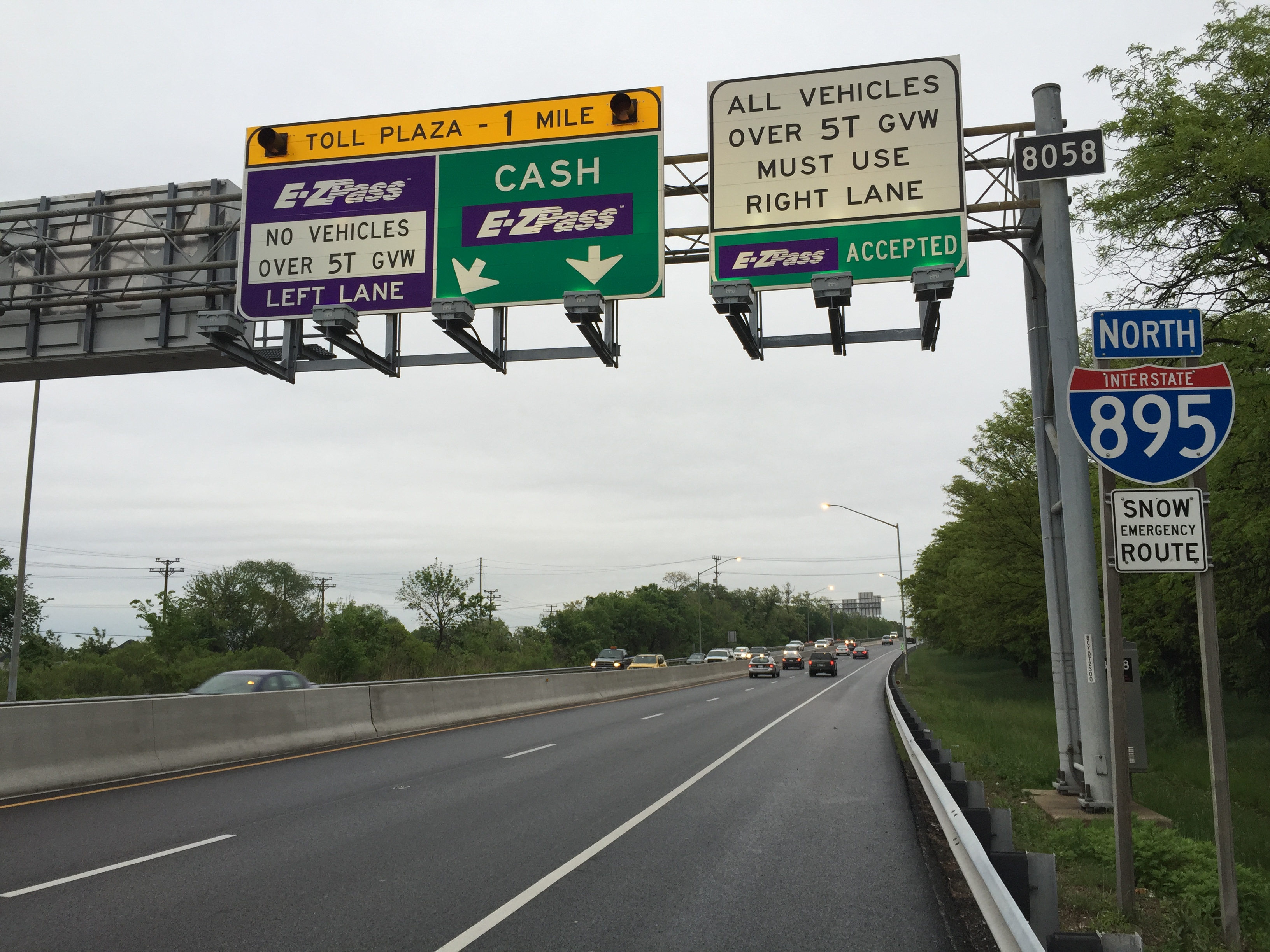 View north along the Baltimore Harbor Tunnel Thruway (Interstate 895) in Brooklyn, Baltimore City, Maryland